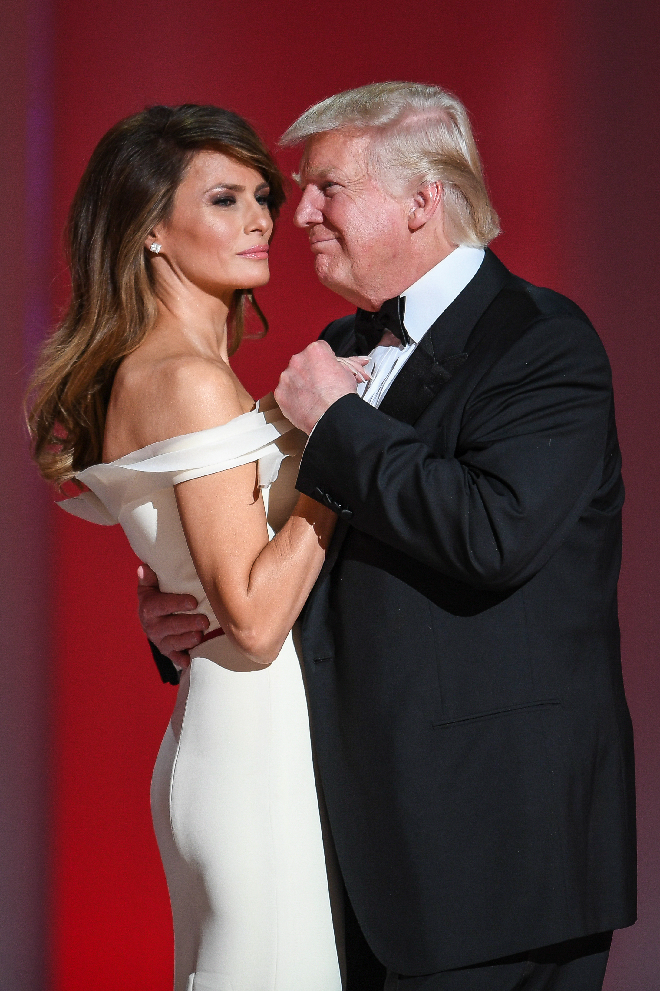 President Donald J. Trump and First Lady Melania Trump dance during the 58th Presidential Inauguration Liberty Ball, Jan. 20, 2017 at the Walter E. Washington Convention Center, Washington D.C. Military personnel assigned to Joint Task Force-National Capital Region provided by the military ceremonial support and Defense Support of Civil Authorities during the inaugural period. (DoD photo by U.S. Army Sgt. Ricky Bowden)